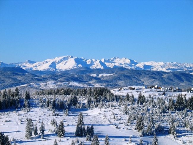 Pogled Breza Gacevici